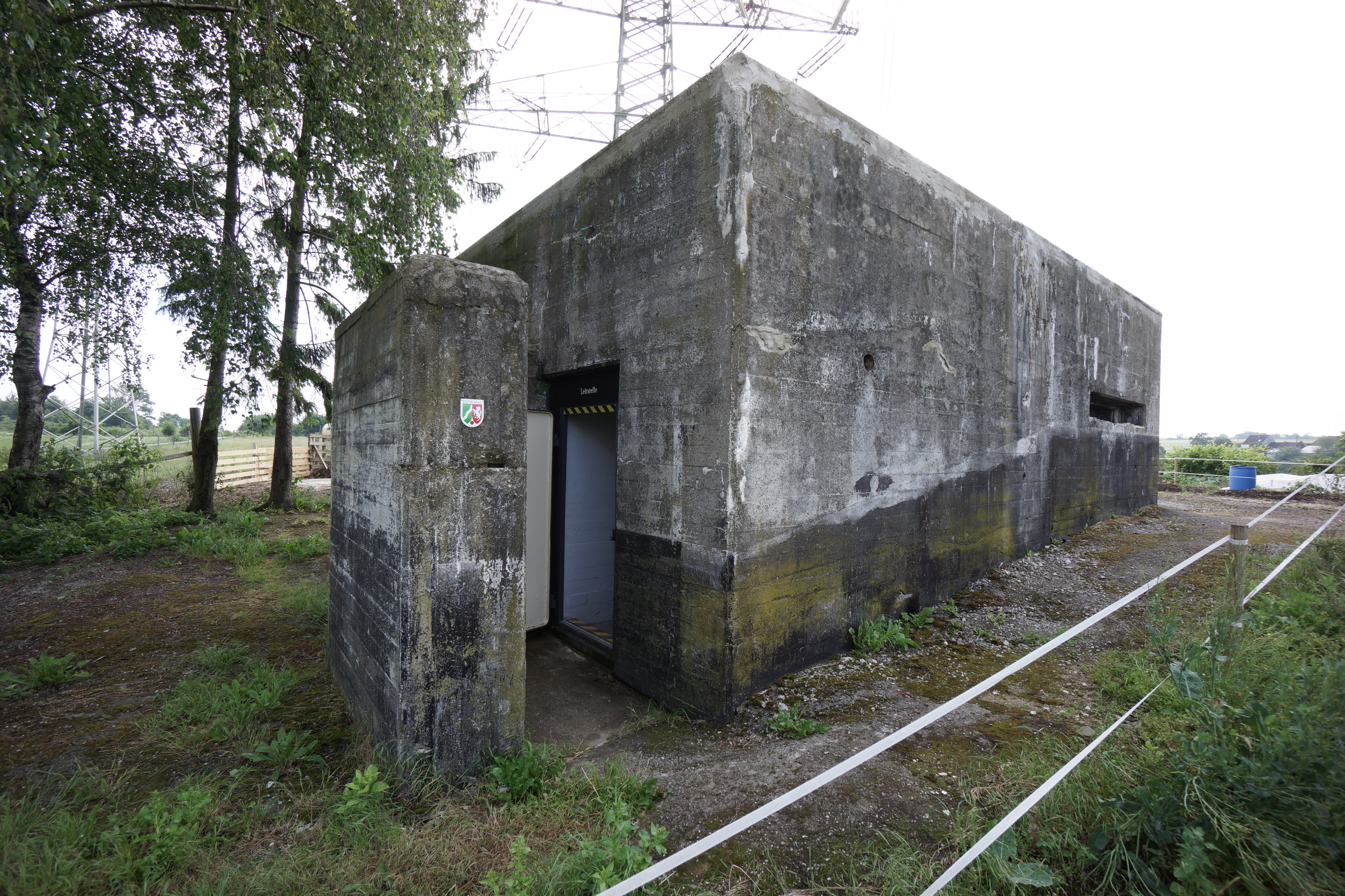 Directional bunker Kruppsche Nachscheinanlage 2019